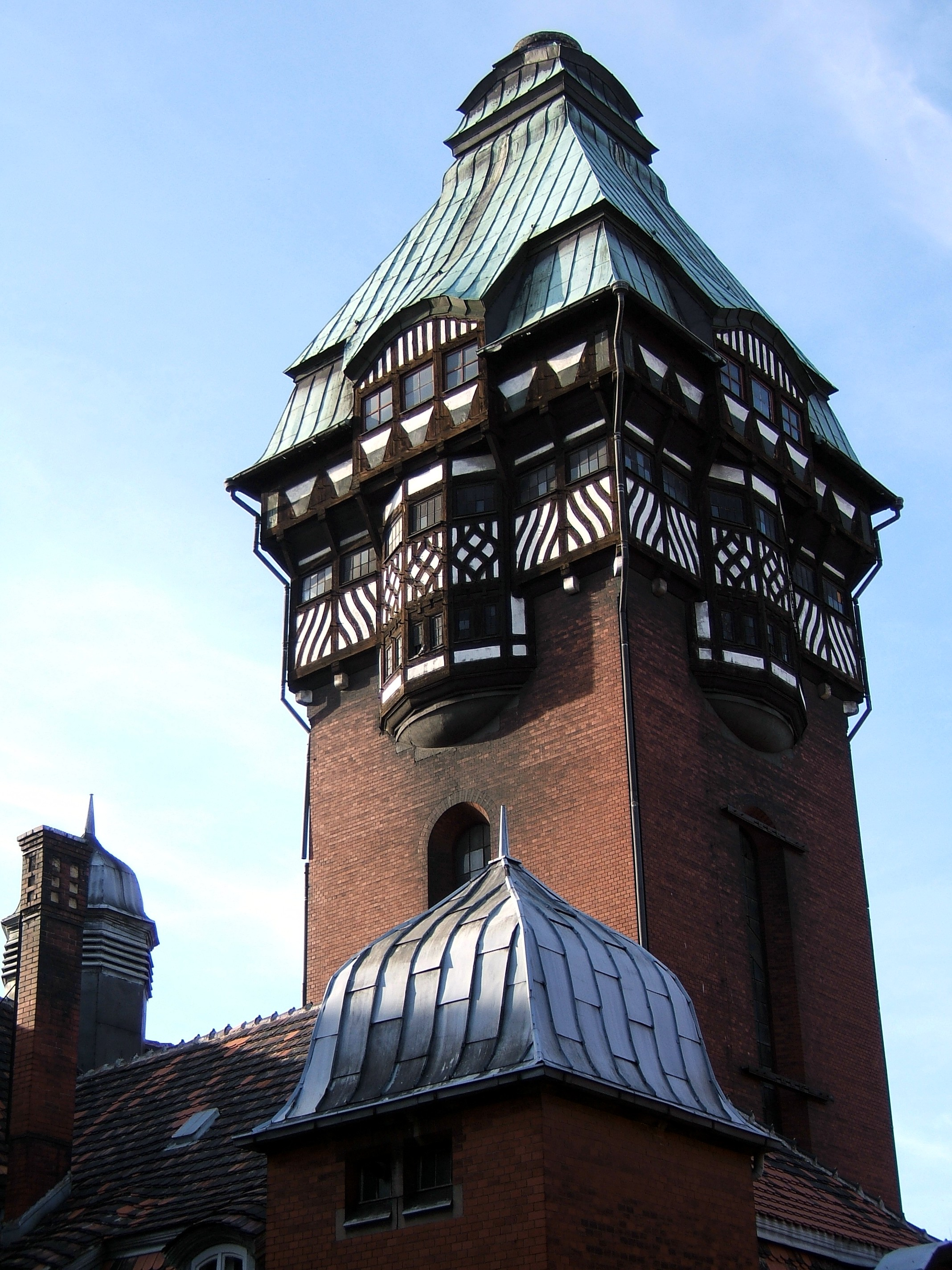 Water tower from 1905 in Zabrze.